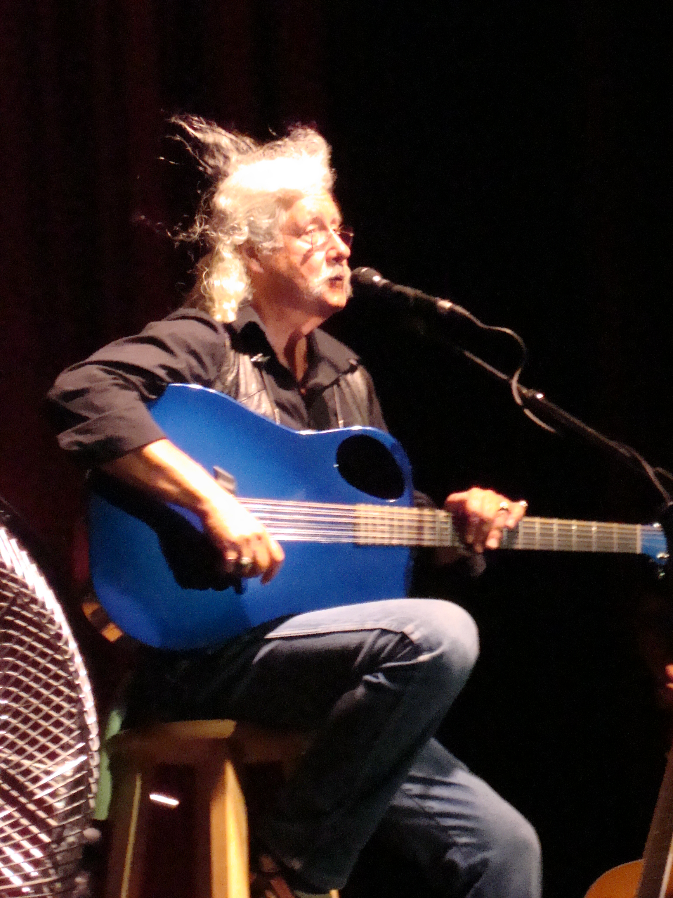 Arlo Guthrie performing at the 2010 Woody Guthrie Folk Festival.